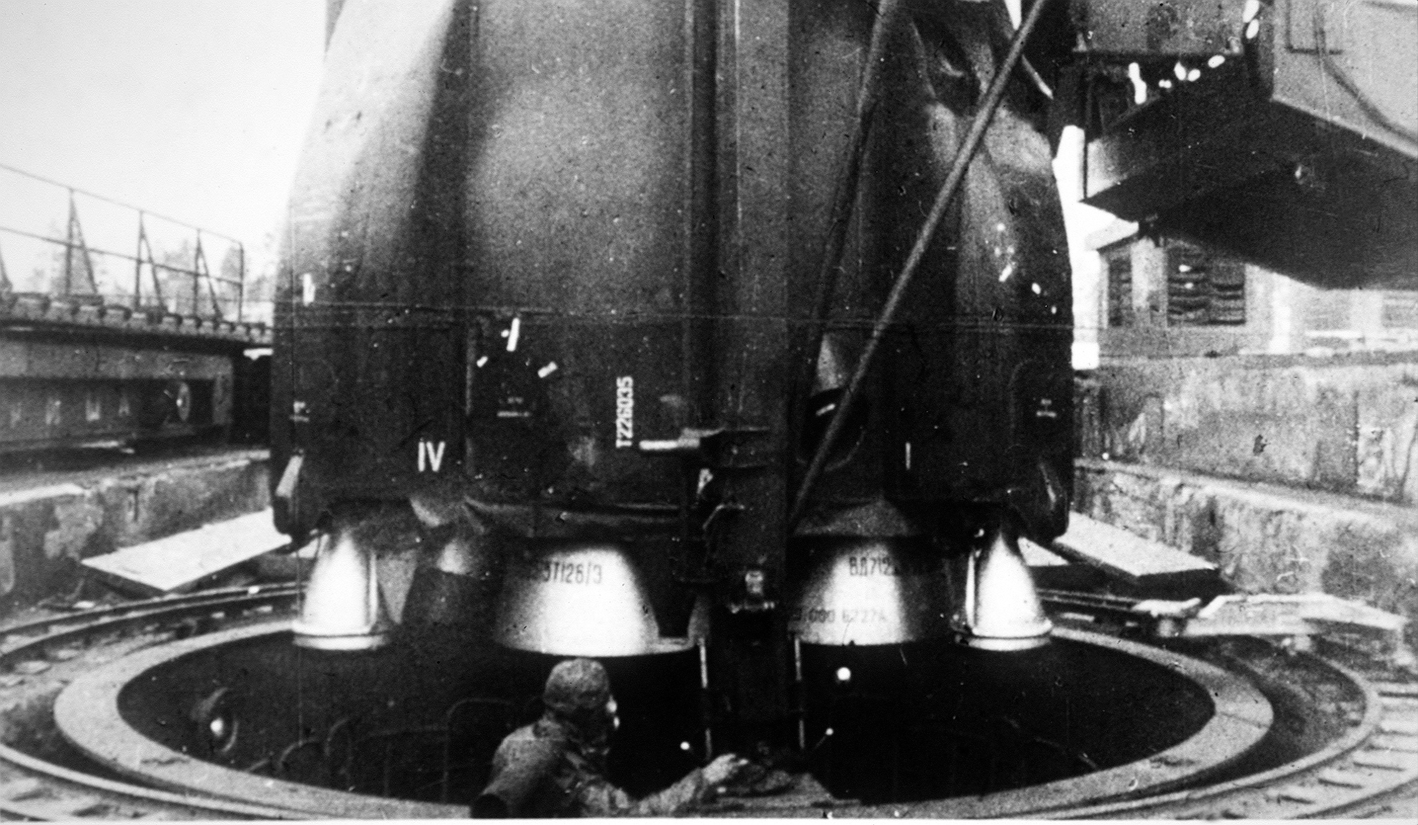 SS-9 Scarp ICBM loading. R-36